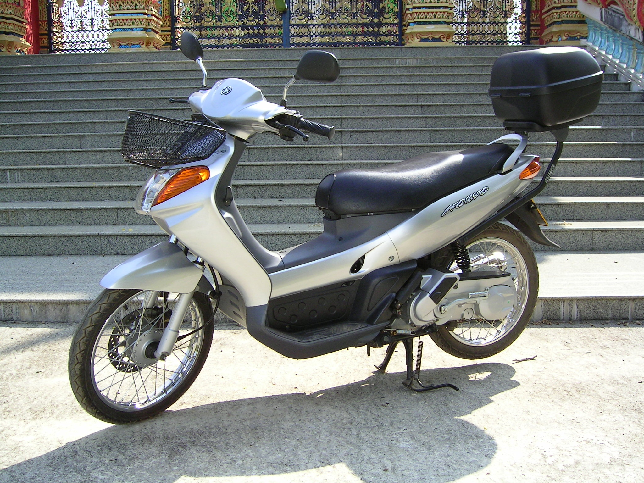 Yamaha´s popular Nouvo automatic scooter (115 cc), Thailand, originally came with spoke wheeles. Cast alloy wheels were optional, as was the top box.